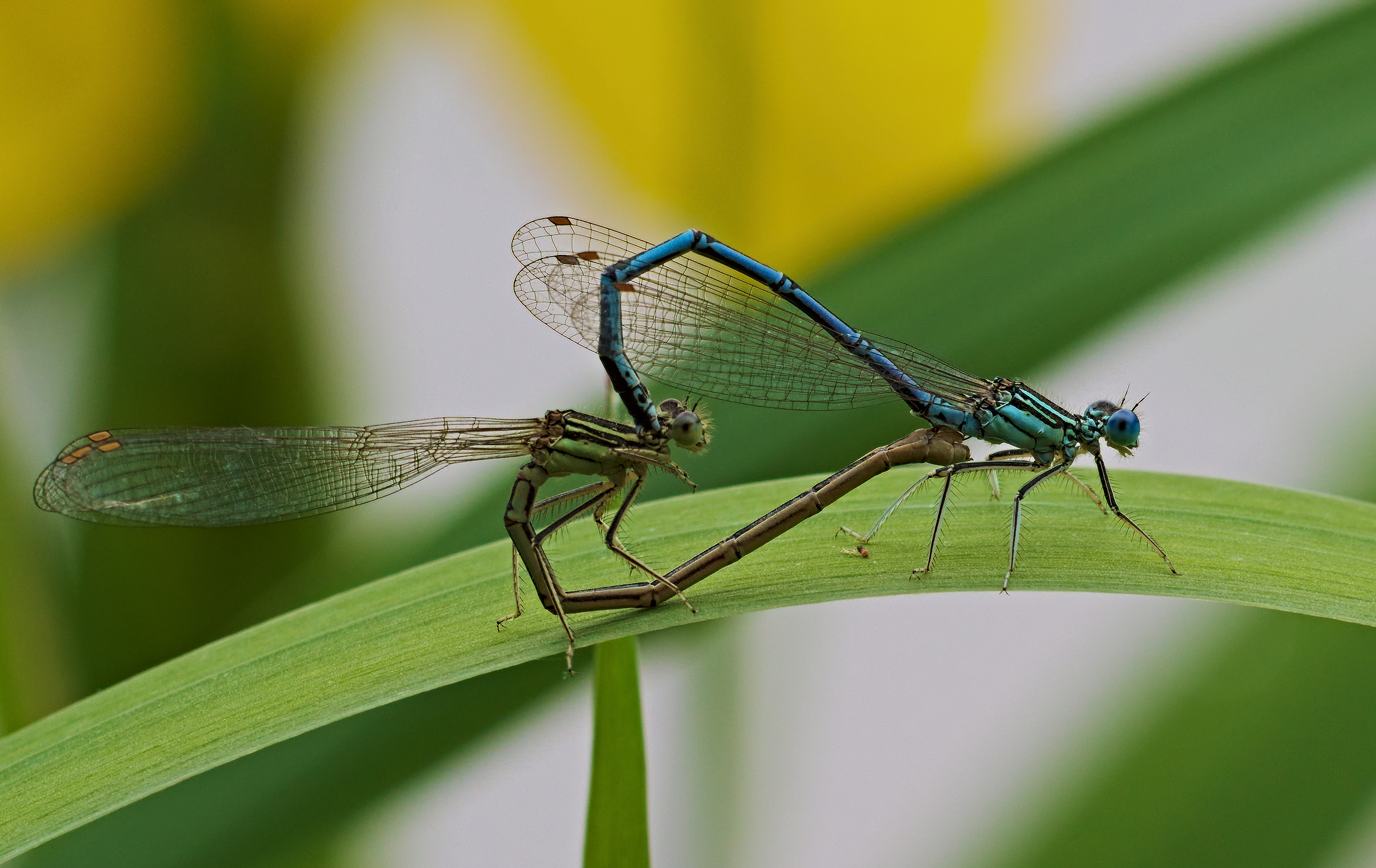 White-legged damselfly - Platycnemis pennipes, couple. Taken by the fishing ponds in Rimbach, Hesse, Germany.